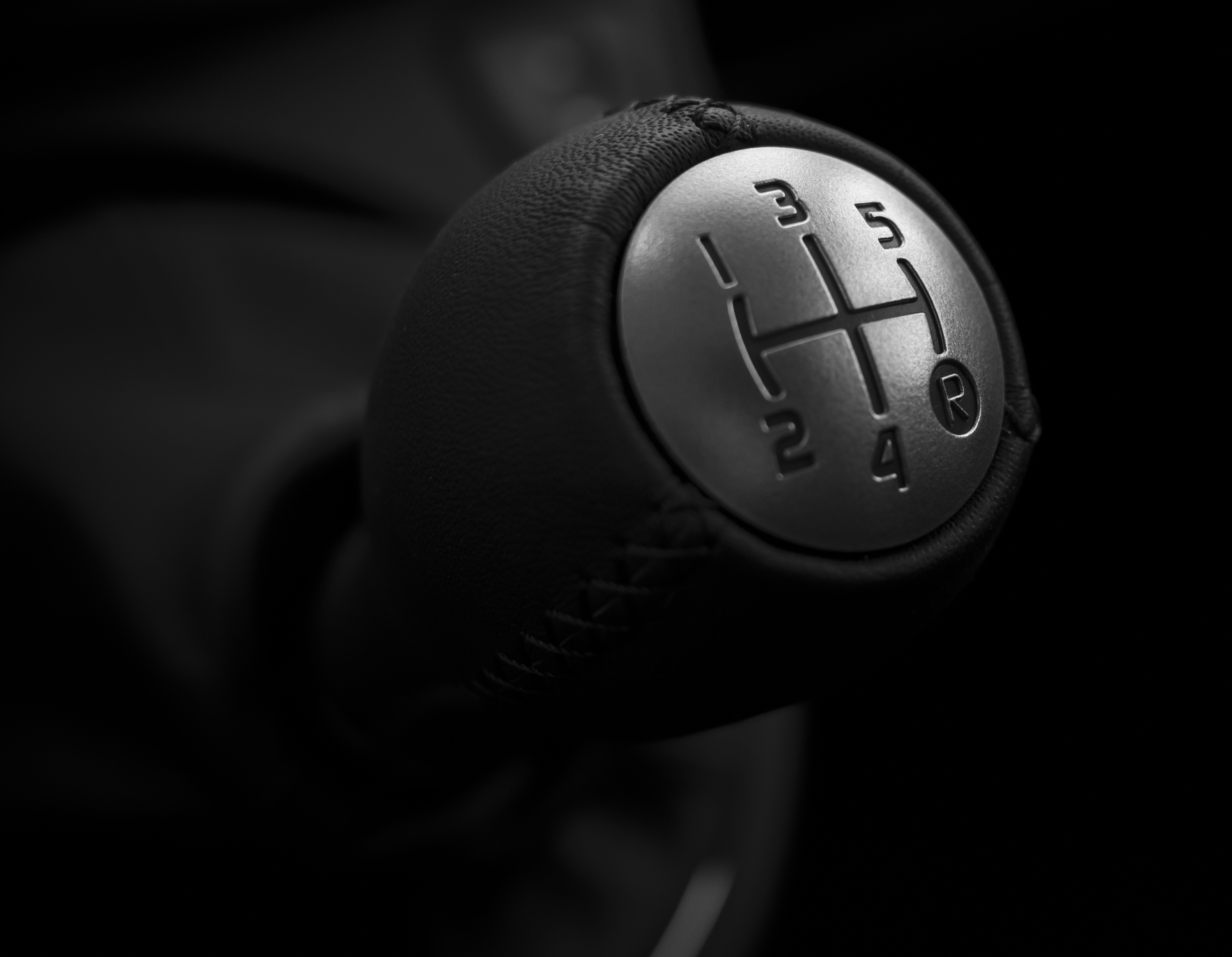 FIAT 500 Abarth manual 5-gear stick.